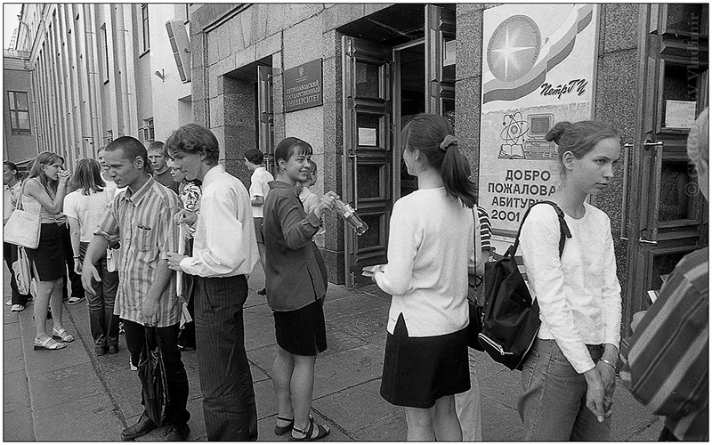 Applicants at the main entrance to the university, 2001.